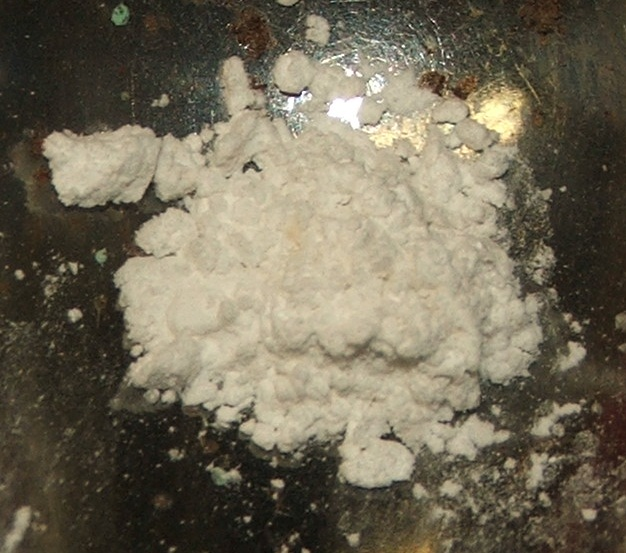 20-year-old calcium oxide, doesn't react with water